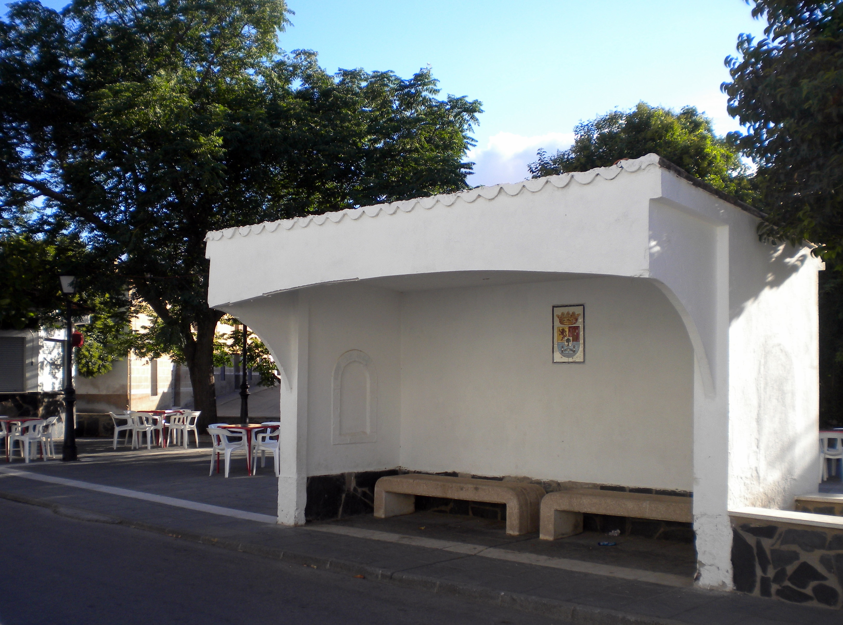 Tree Square and bus stop in Talaván (Extremadura, Spain)